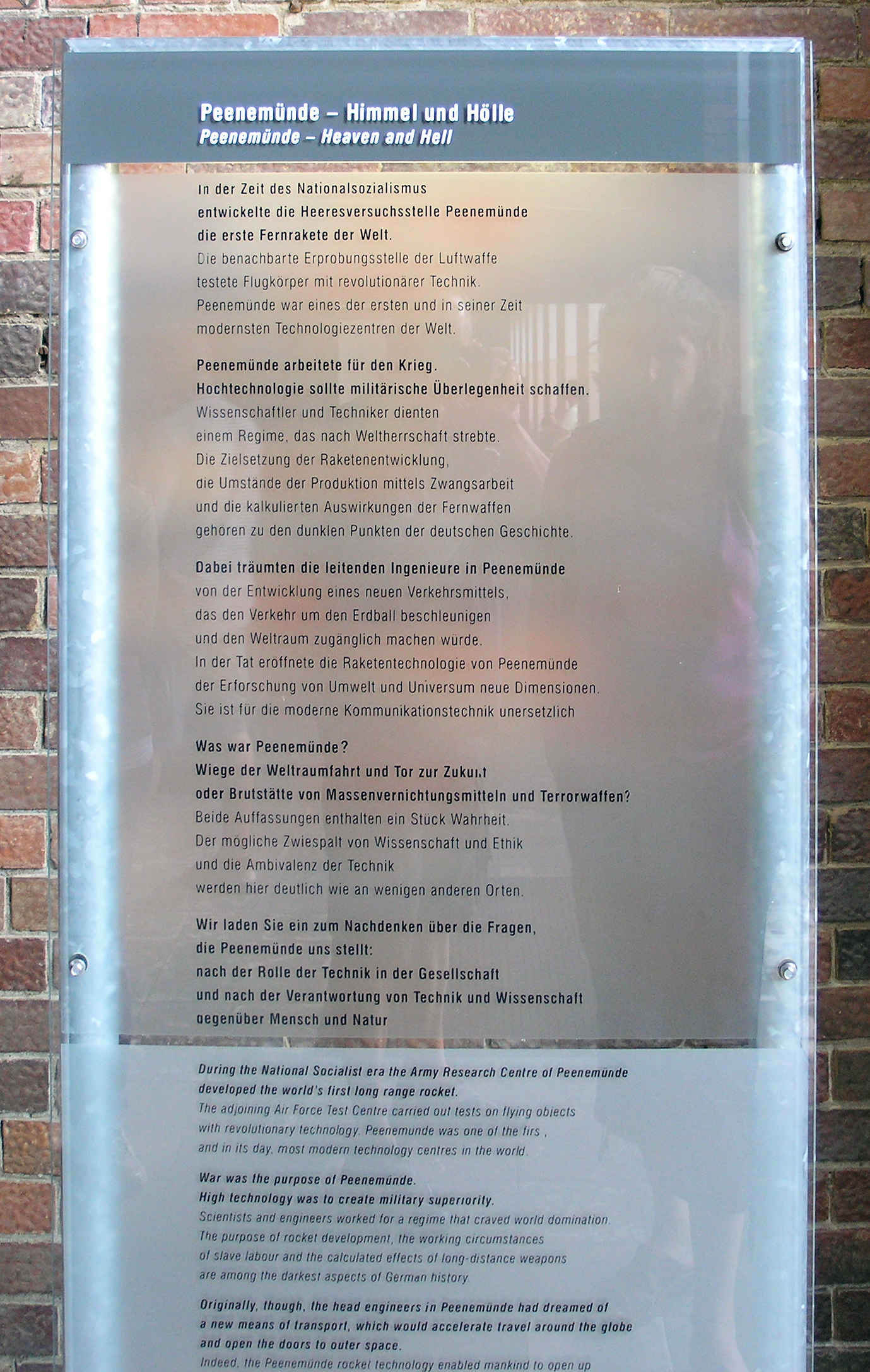 Memorial plaque, Himmel und Hölle, Ostseestraße , Peenemünde, Germany Koordinate:54°8′20″N 13°46′10″E / 54.13889°N 13.76944°E